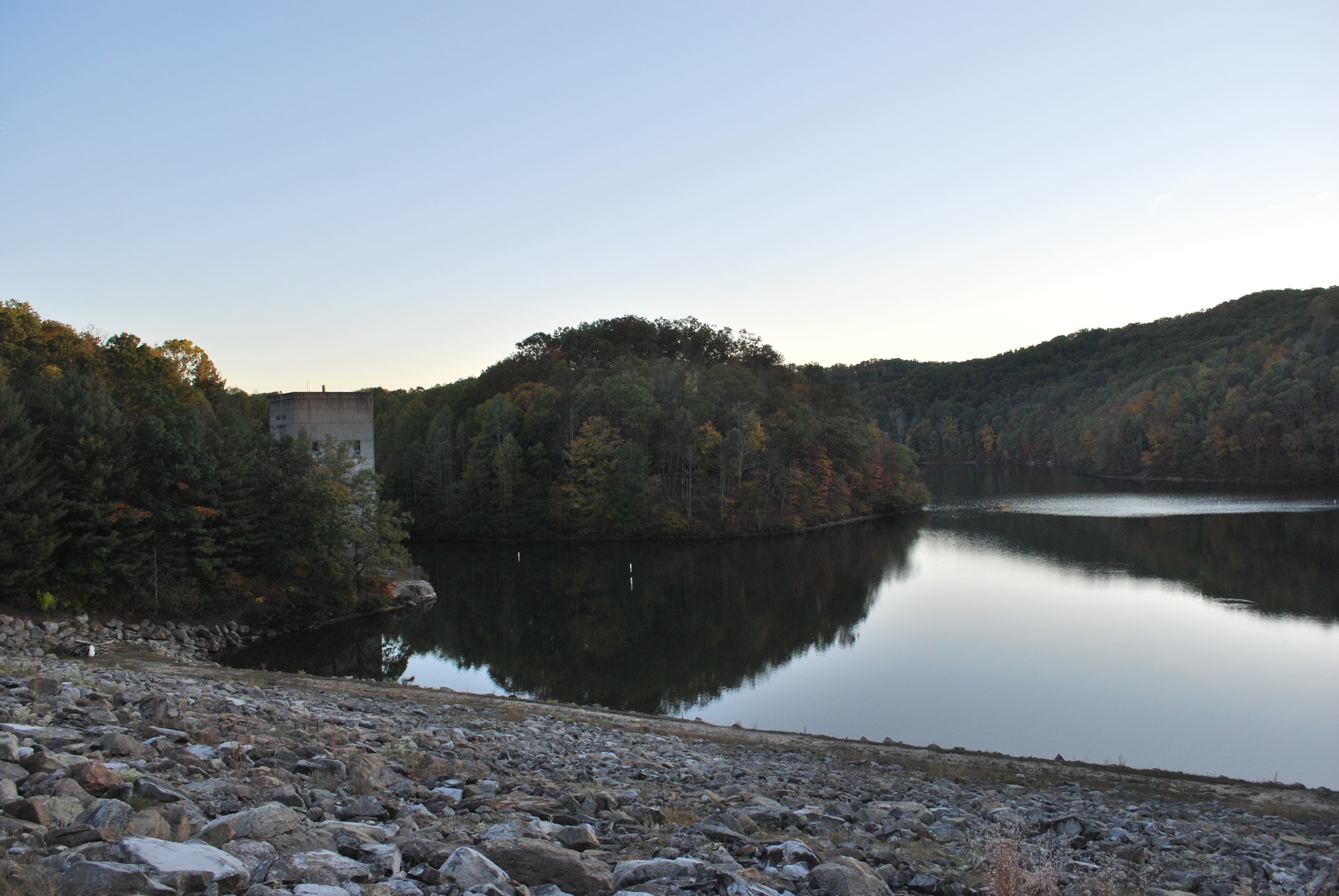 East Lynn Lake, taken from atop of the dam.